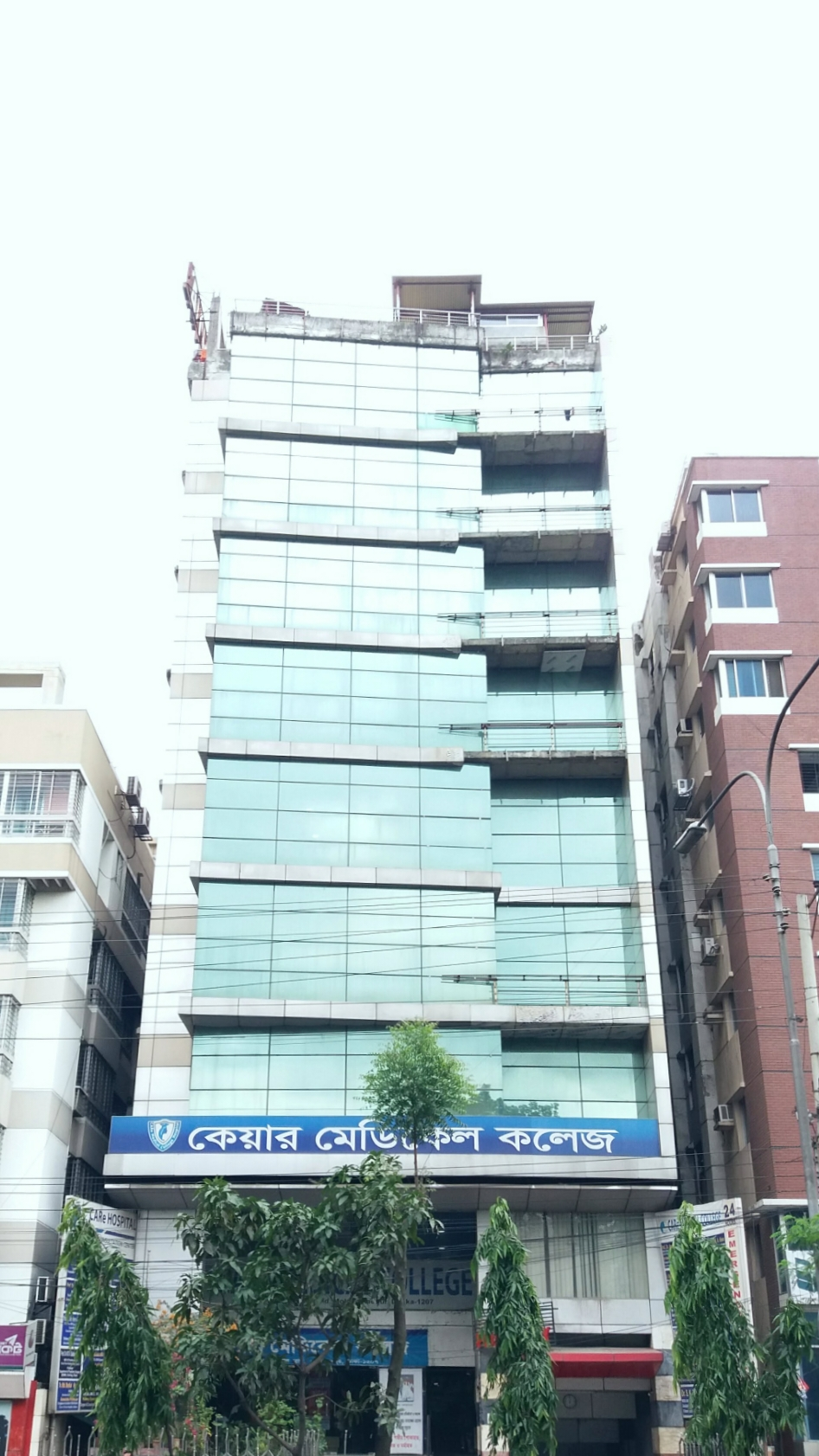 Medical college campus of CARe Medical College